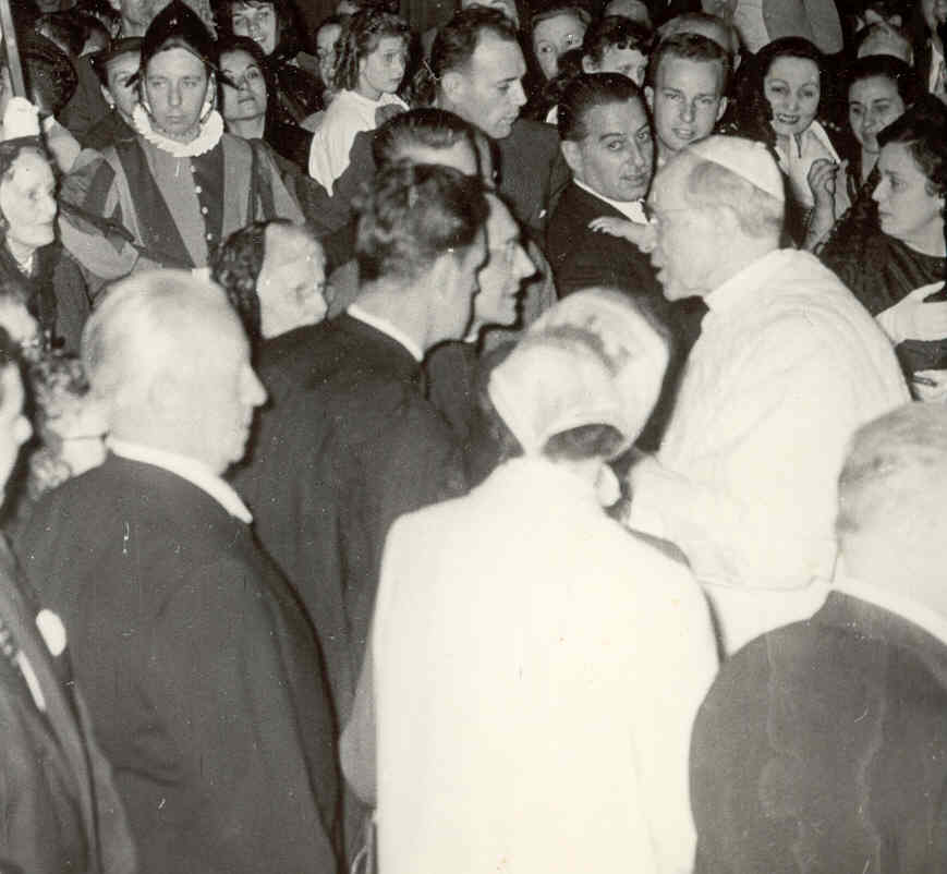 Picture taken during general audience in St. Peter Basilica